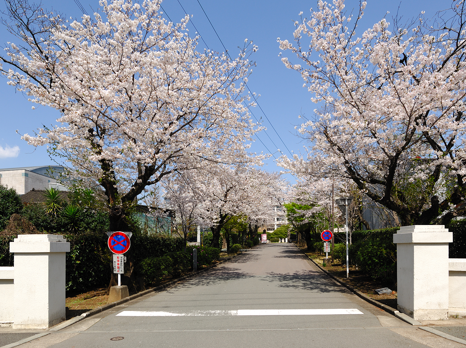 Kumamoto High School